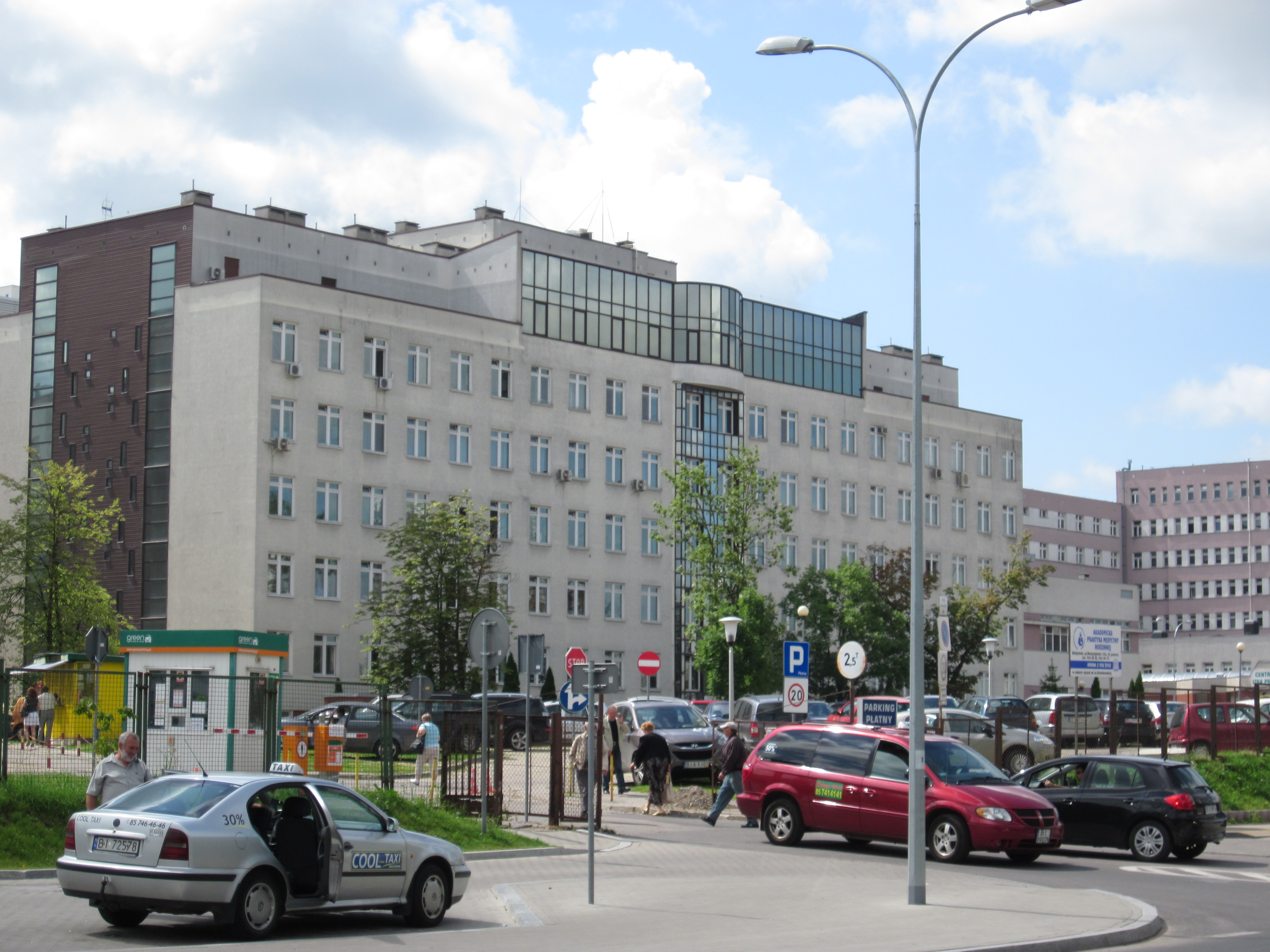 Clinics University Hospital in Białystok at Waszyngtona Street